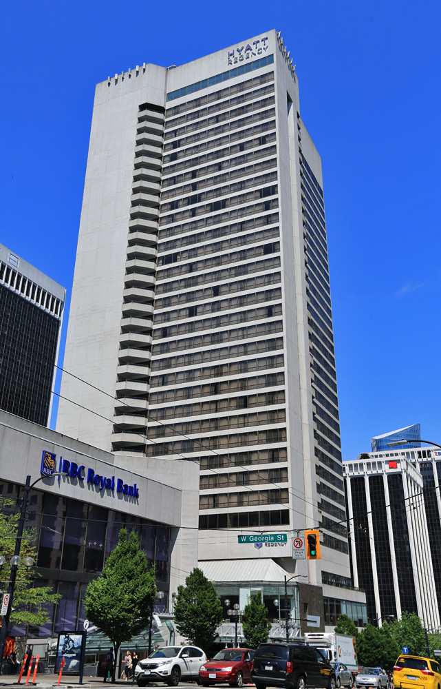 Hyatt Regency hotel tower in Vancouver.